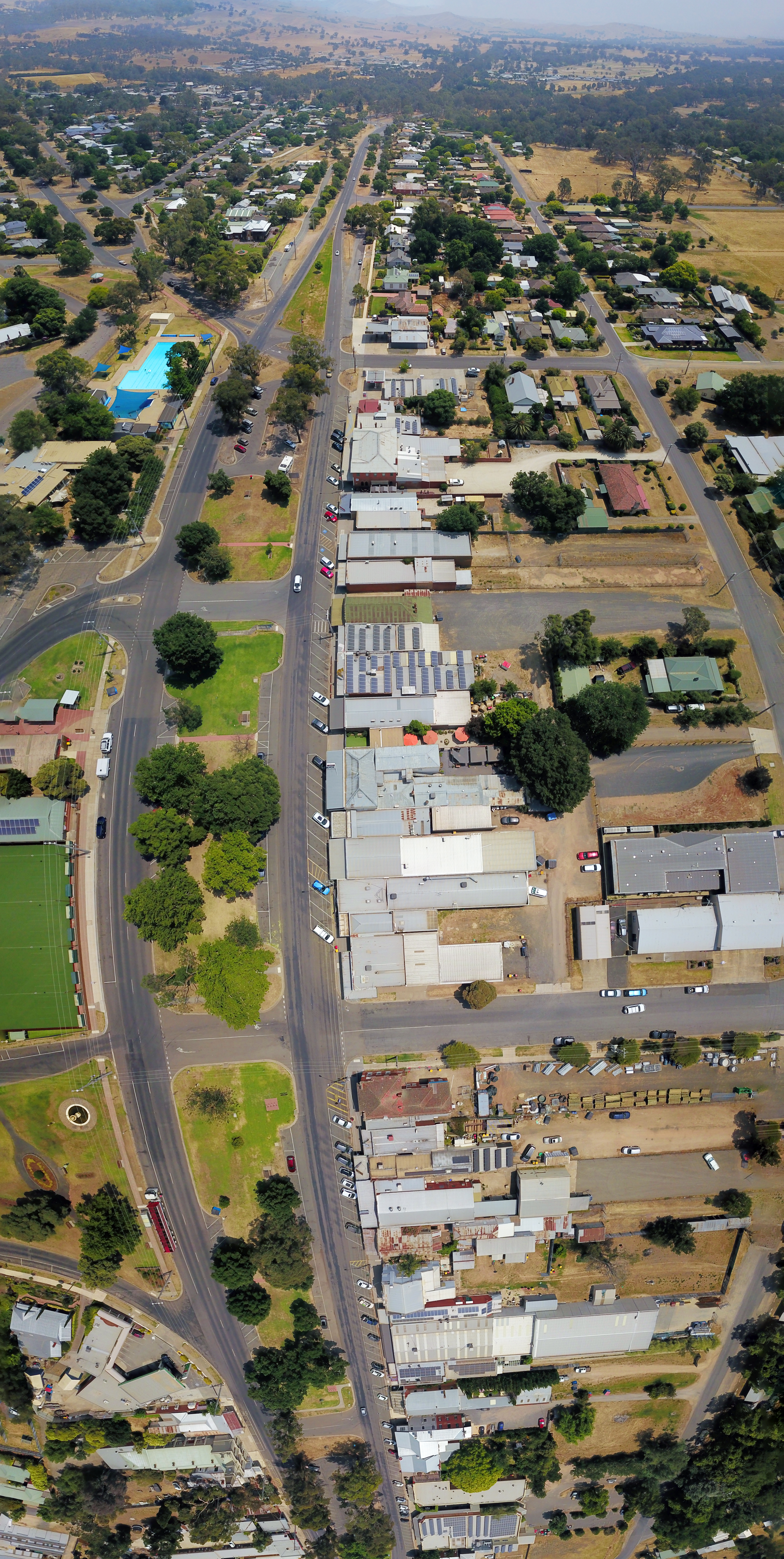 Yea township topdown panorama. Jan 2020